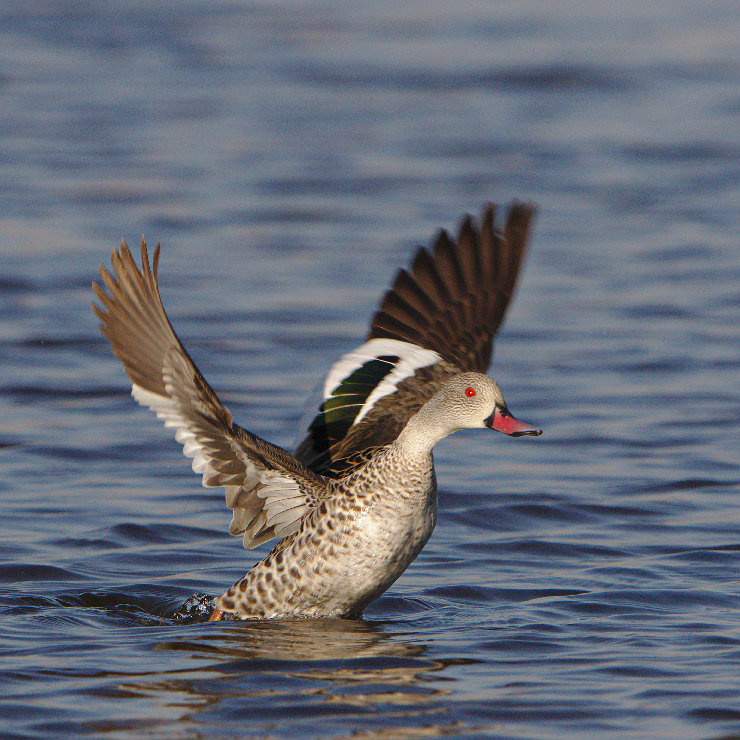 Cape Teal, Anas capensis, Marievale Nature Reserve, Gauteng, South Africa